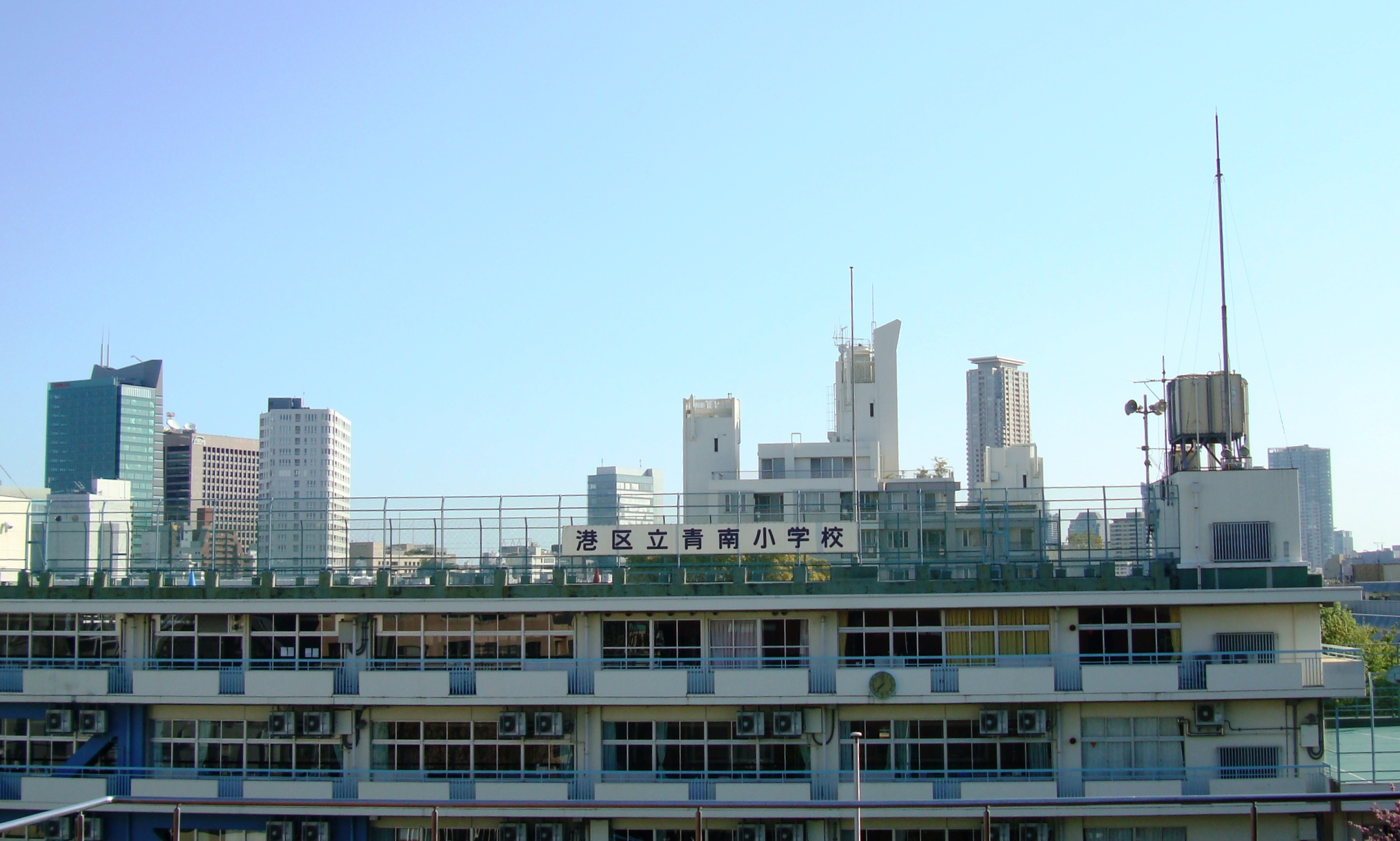 High-rise buildings in Aoyama and Akasaka area of Tokyo standing behind Seinan Elementary School